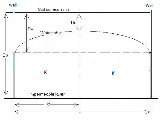 Drainage by fully penetrating wells in a simple aquifer